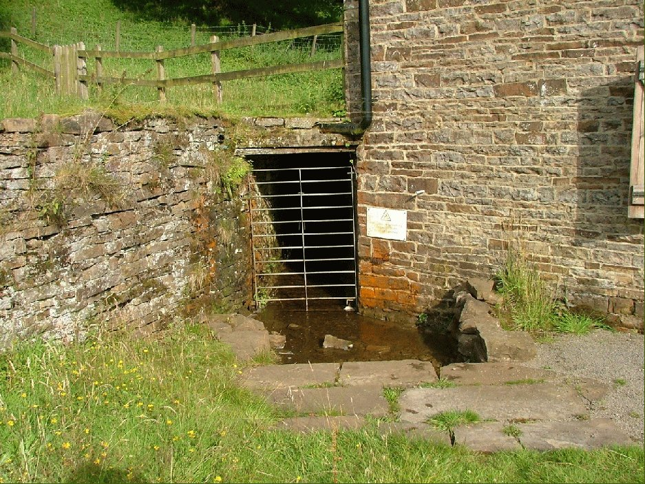 Next to Nenthead Heritage center is Rampgill, a typical mineral mine.